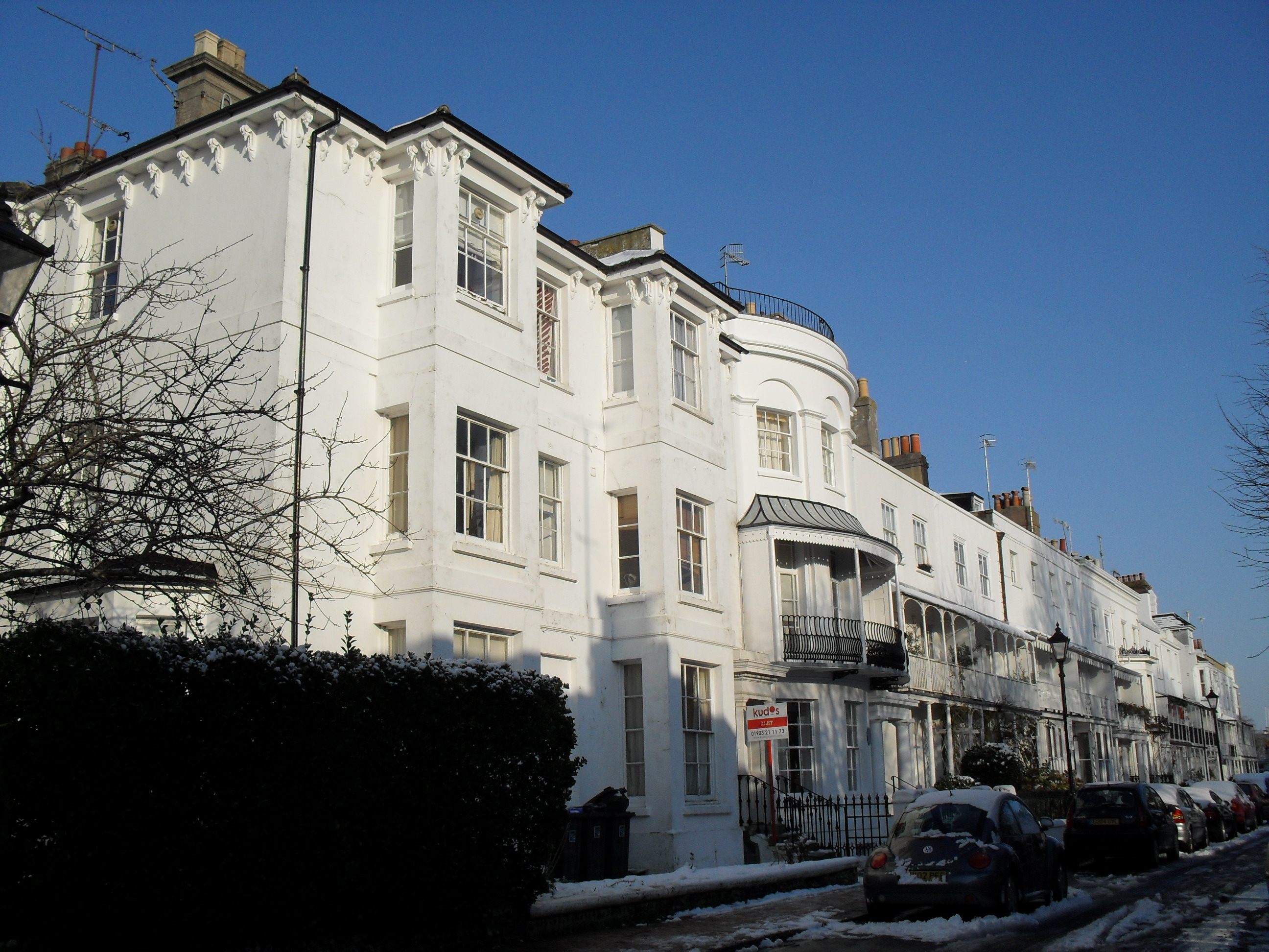 15 (foreground) and 1 to 14 Ambrose Place, Worthing, West Sussex, England, seen from west-southwest. Numbers 1–14 were built 1814–24 for a speculator, Ambrose Cartwright, after whom the terrace is named. Number 15 was added about 1850. Number 14 may have been designed by architect John Biagio Rebecca (1777–1847). The playwright Harold Pinter and actress Viven Merchant lived at number 14 in 1962–64.